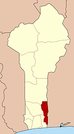 Map of Benin highlighting the department Plateau